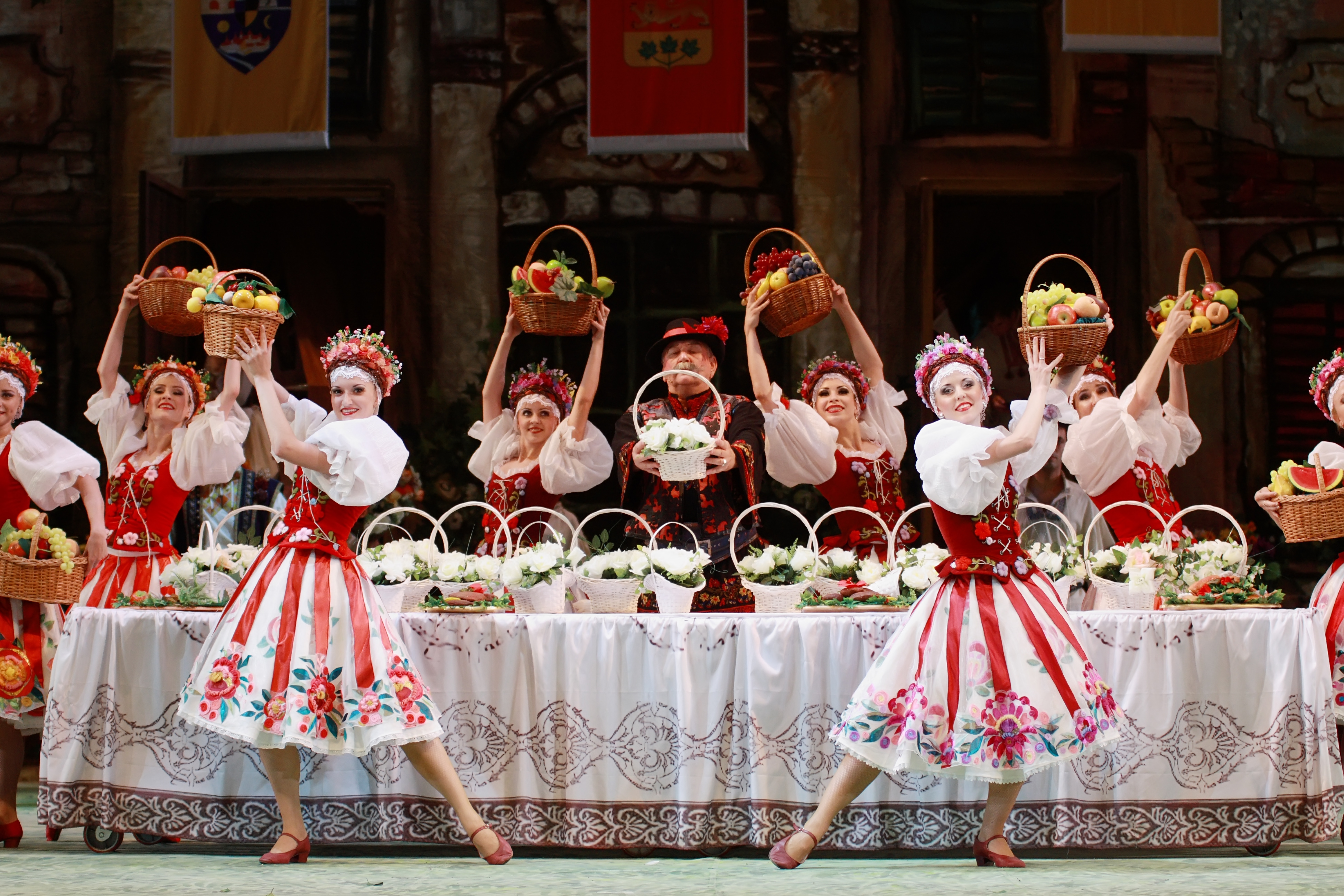 A scene from the operetta The Gypsy Baron by Johann Strauss II